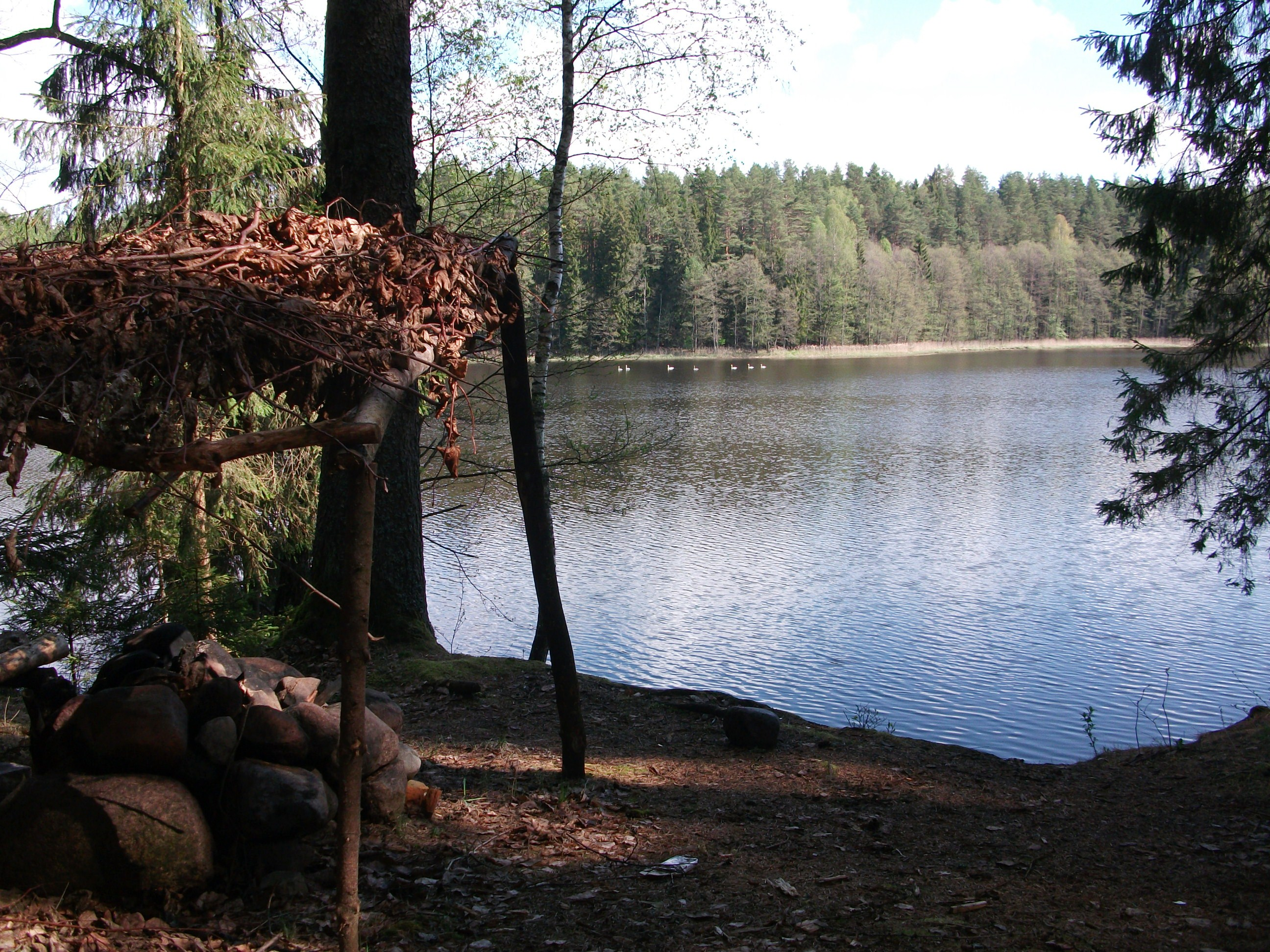 Baranskaye Lake, Astraviec district, Belarus